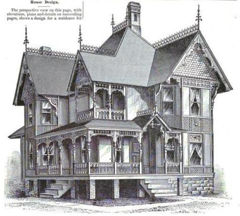 The Charles E. Bradt house, built in DeKalb, Illinois, USA, in 1887. This was one of the first houses designed by architect George Franklin Barber (1854–1915).